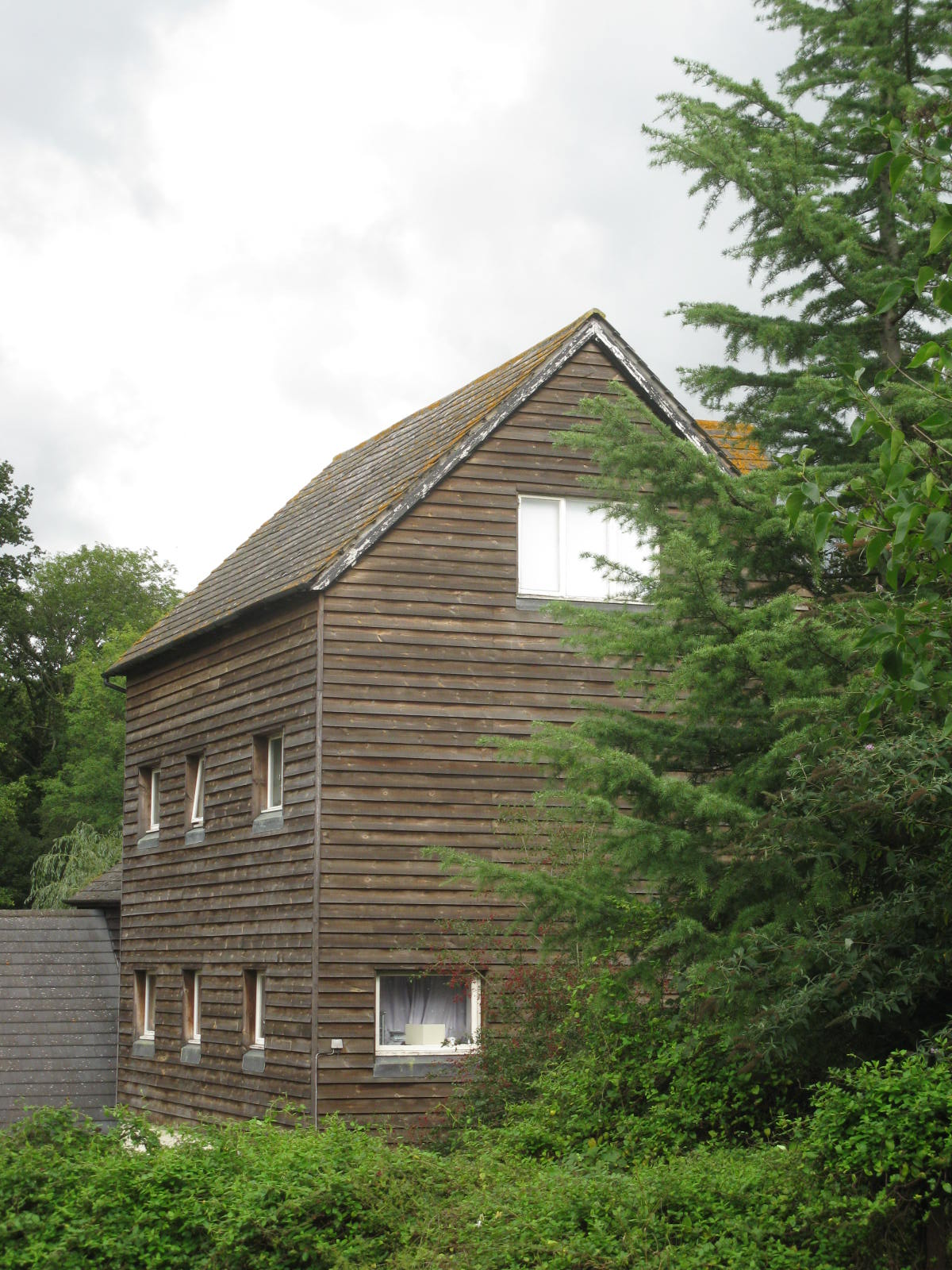 The house converted Barden Mill, Speldhurst, Kent.